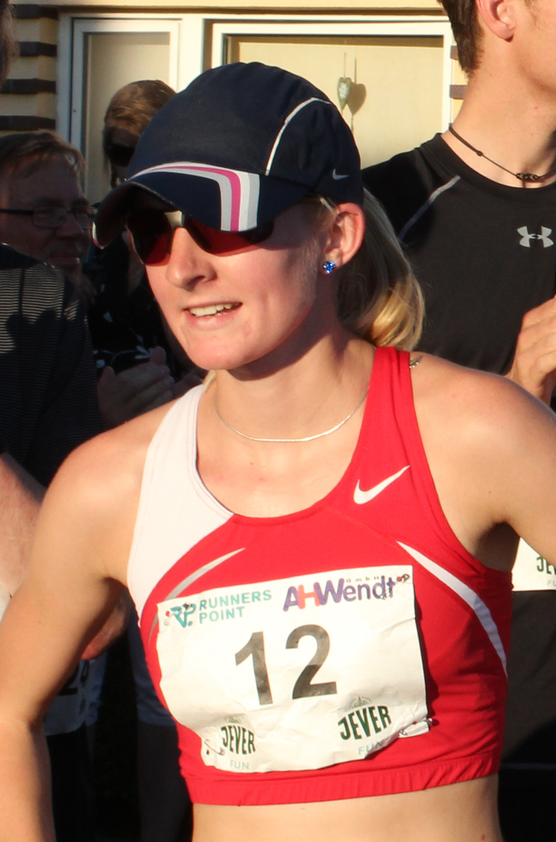 Katharina Heinig 2012 in Schortens